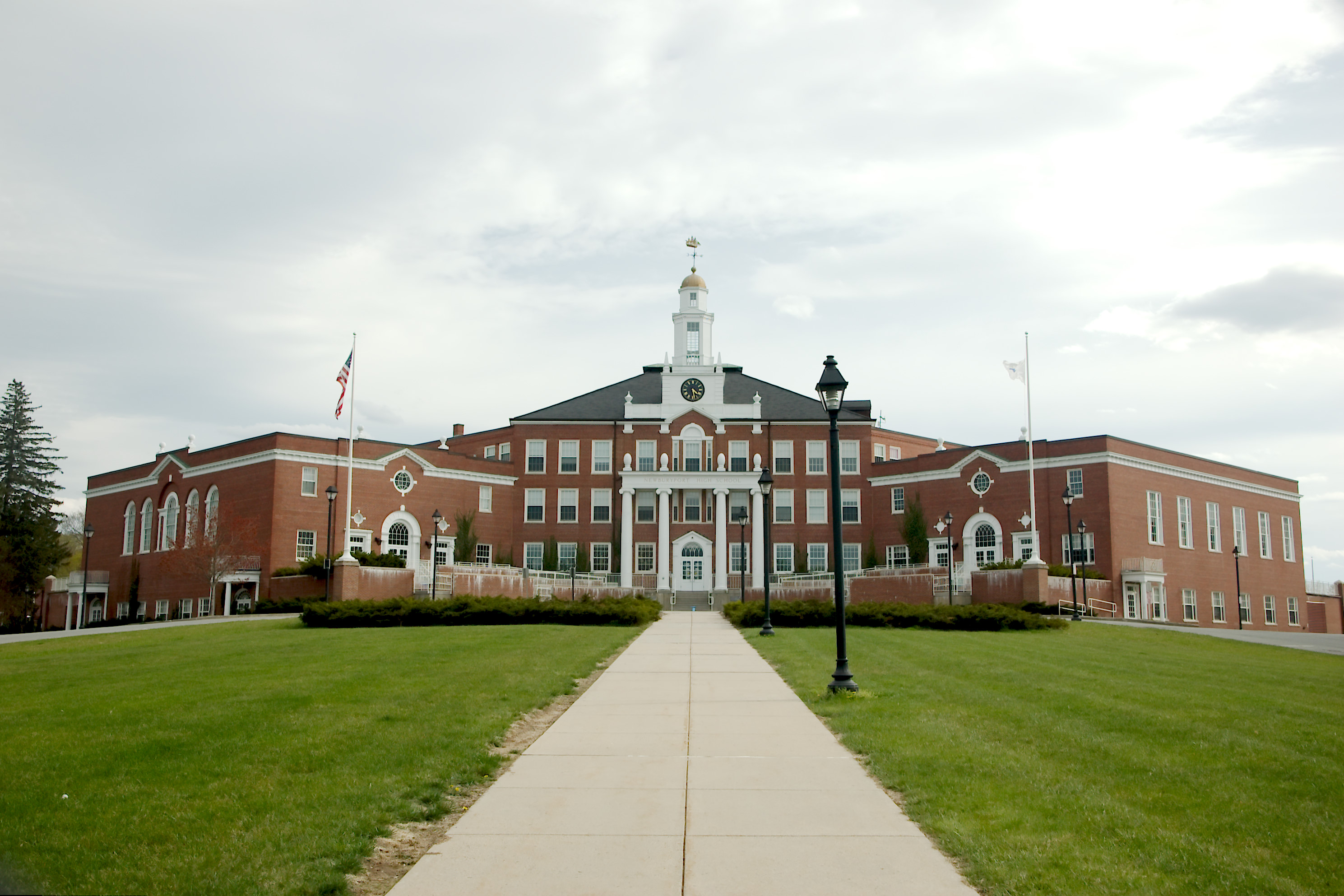 Newburyport High School in eponymous town in Massachusetts. Est. 1831.